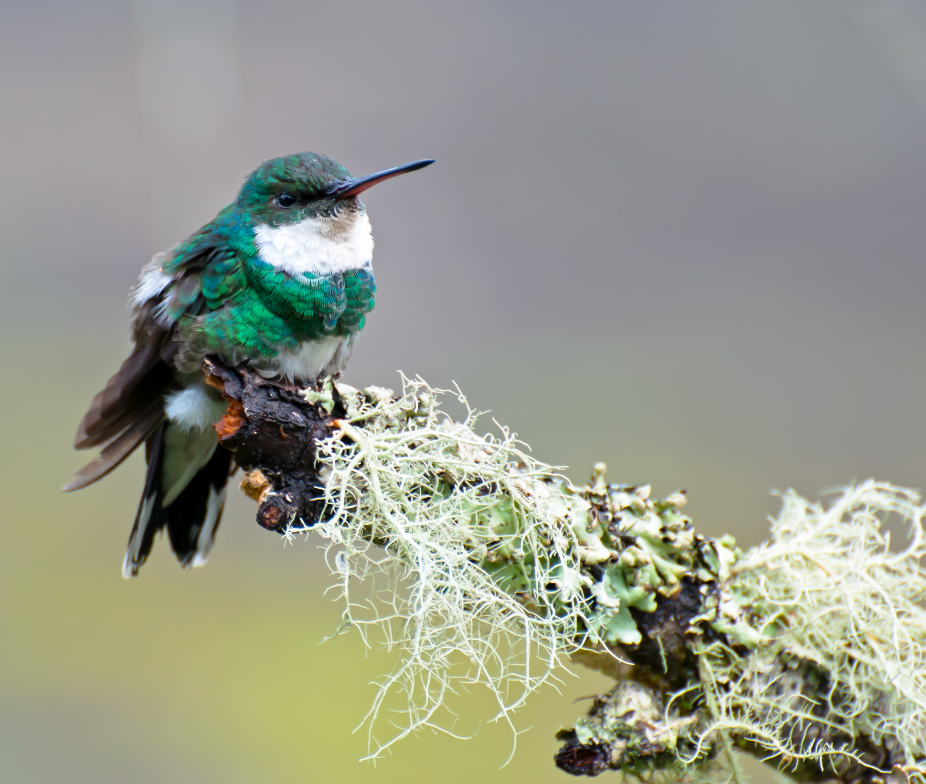 A White-throated Hummingbird in Reserva Guainumbi, São Luis do Paraitinga, São Paulo, Brazil.